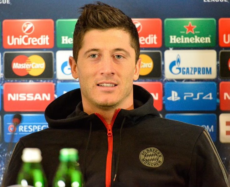 Robert Lewandowski at a press conference for FC Bayern Munich before a match against Shakhtar Donetsk in 2015